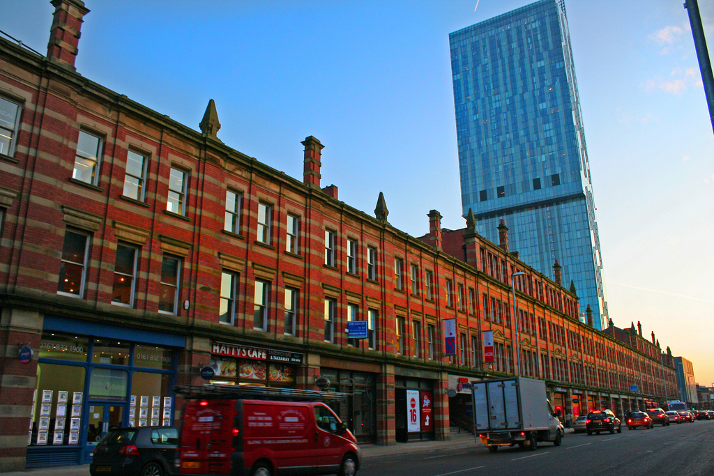 I like them both!